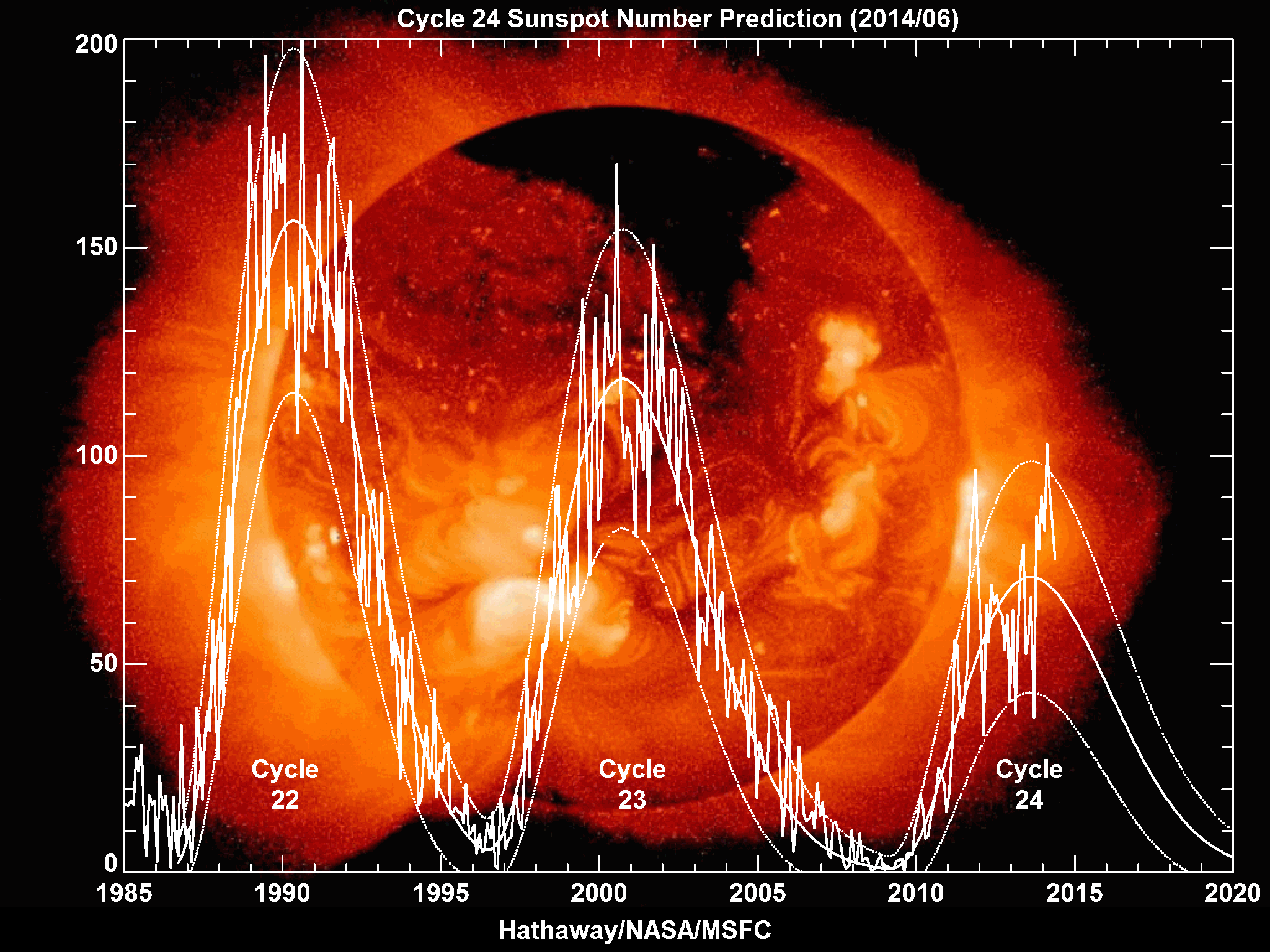 Solar Cycle Prediction (Updated 2011/02/03)